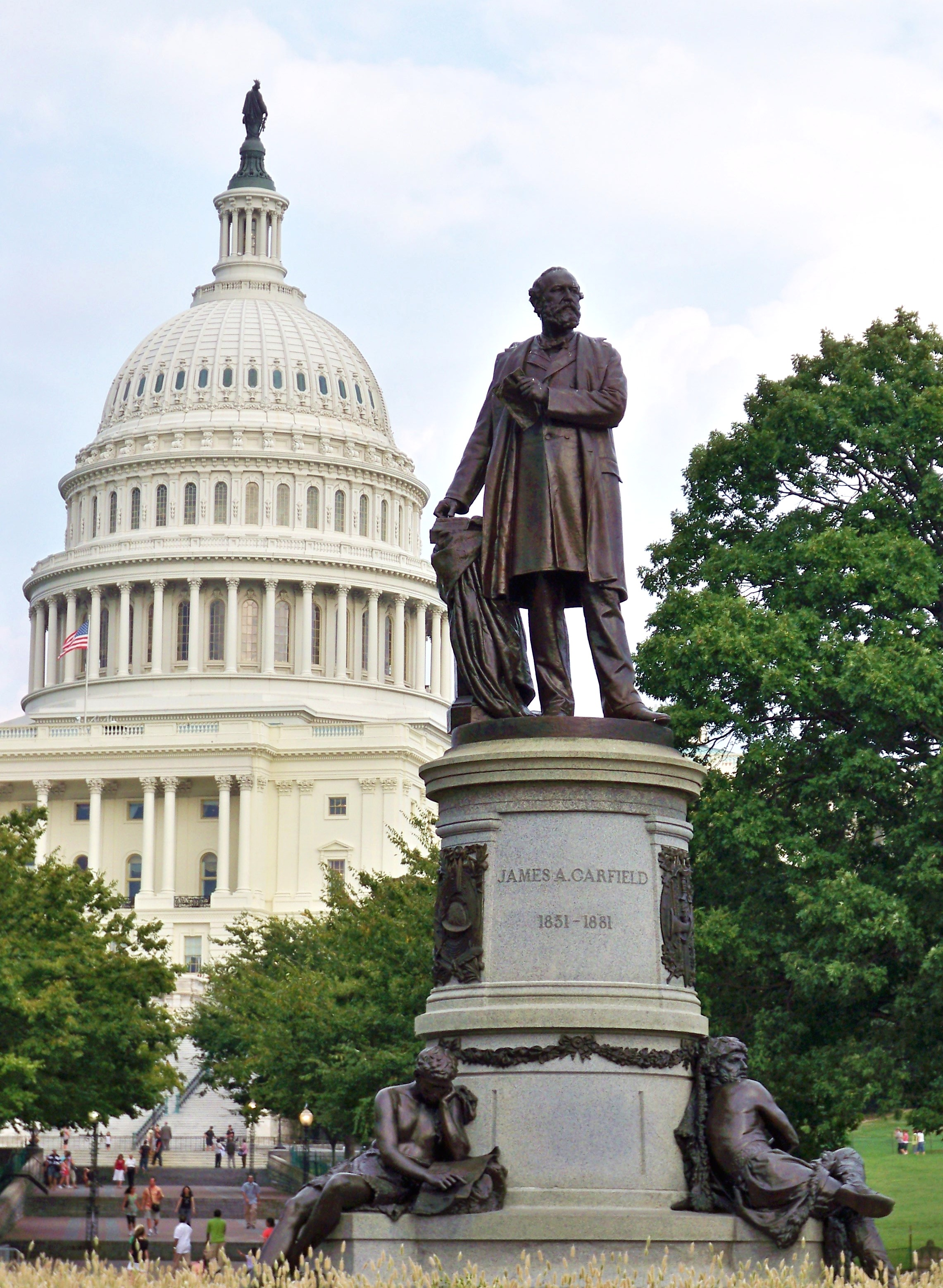 Memorial to President Garfield by the US Capitol.